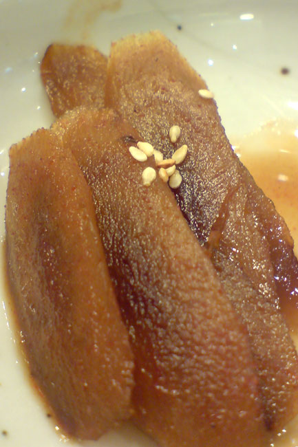 Ueong jorim (우엉조림), braised greater burdock (Arctium lappa) in Korean cuisine.